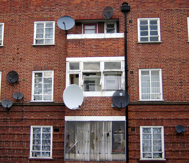 A brick wall with satellite dishes mounted on it